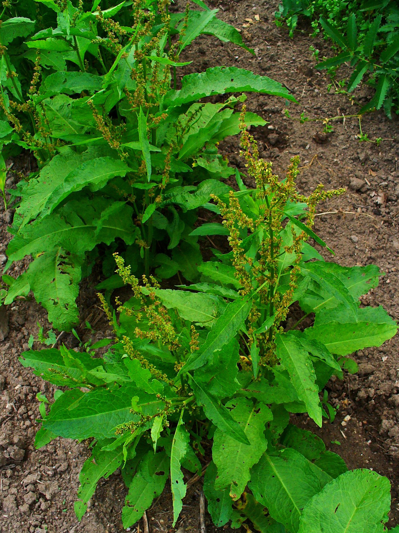 Rumex obtusifolius, Polygonaceae, Broad-leaved Dock, Bitter Dock, Bluntleaf Dock, Dock Leaf, habitus.